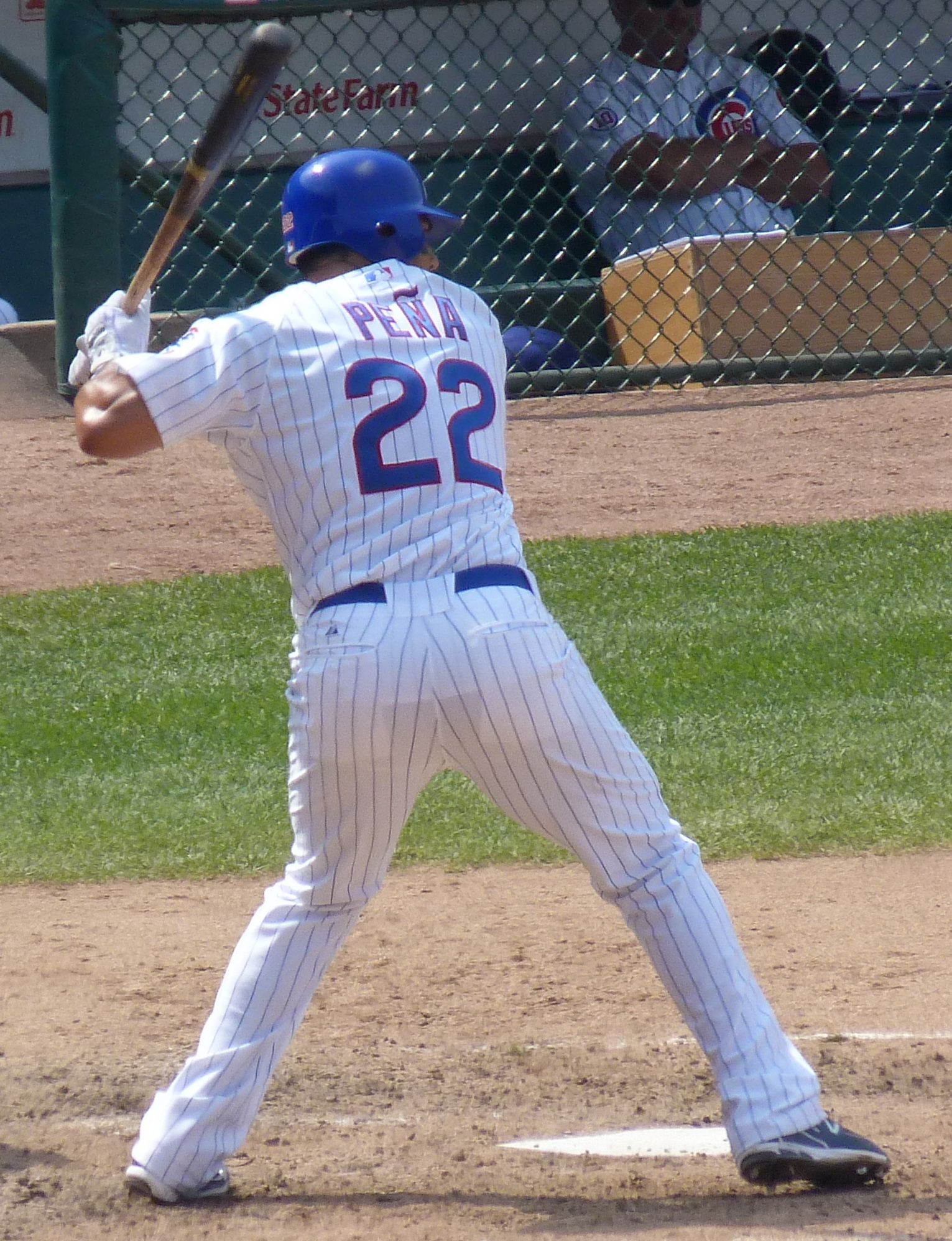 Carlos Pena with Chicago Cubs